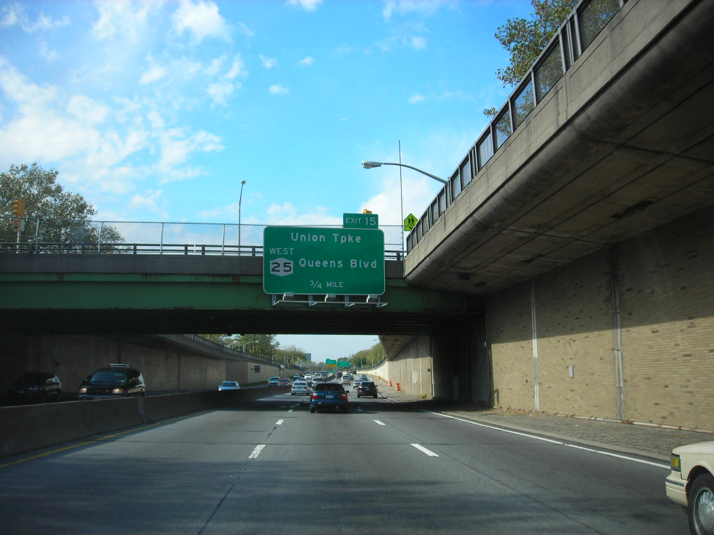 Grand Central Parkway - New York